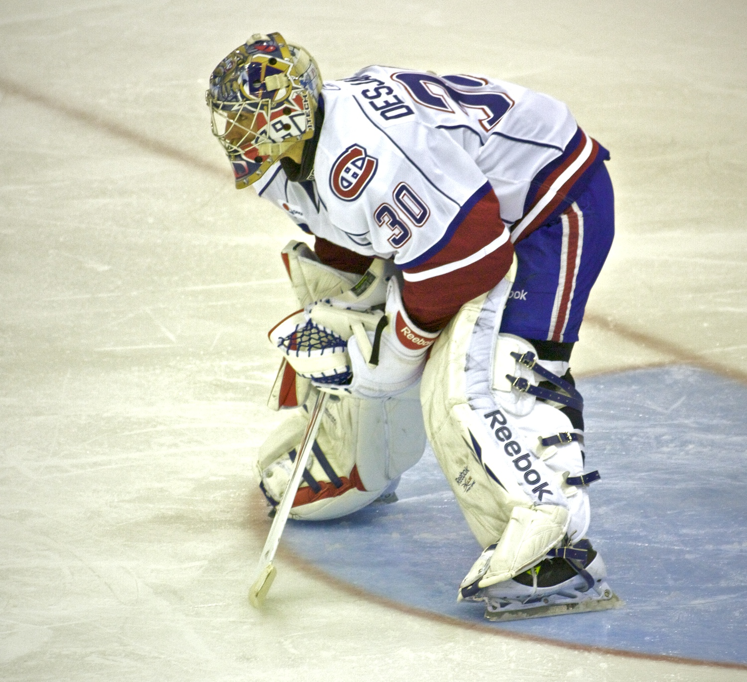 Cedrick Desjardins, Hamilton Bulldogs play Marlies in the first round of the Gardiner Cup, Edinburgh.